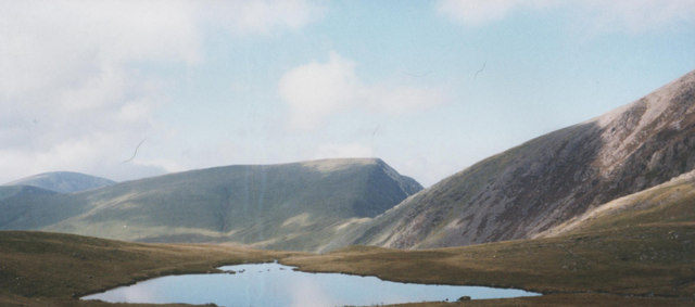 Llyn Coch. Llyn Coch, a shallow 2.5 acre lake, is one of five lakes in Cwm Clogwyn.